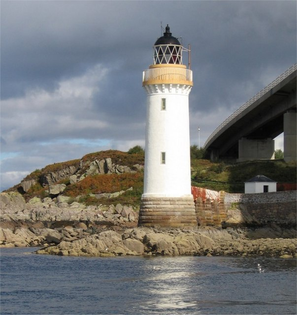 Stevenson Lighthouse on Eilean Ban This 70-foot lighthouse was built by David and Thomas Stevenson in 1857. Thomas was the father of Robert Louis Stevenson. It was decommissioned in 1993 but remains a "day mark", a landmark used for marine navigation into the narrows of Loch Alsh during daylight hours. The Skye Bridge can be seen to the right whose supports rest on the island of Eilean Ban.